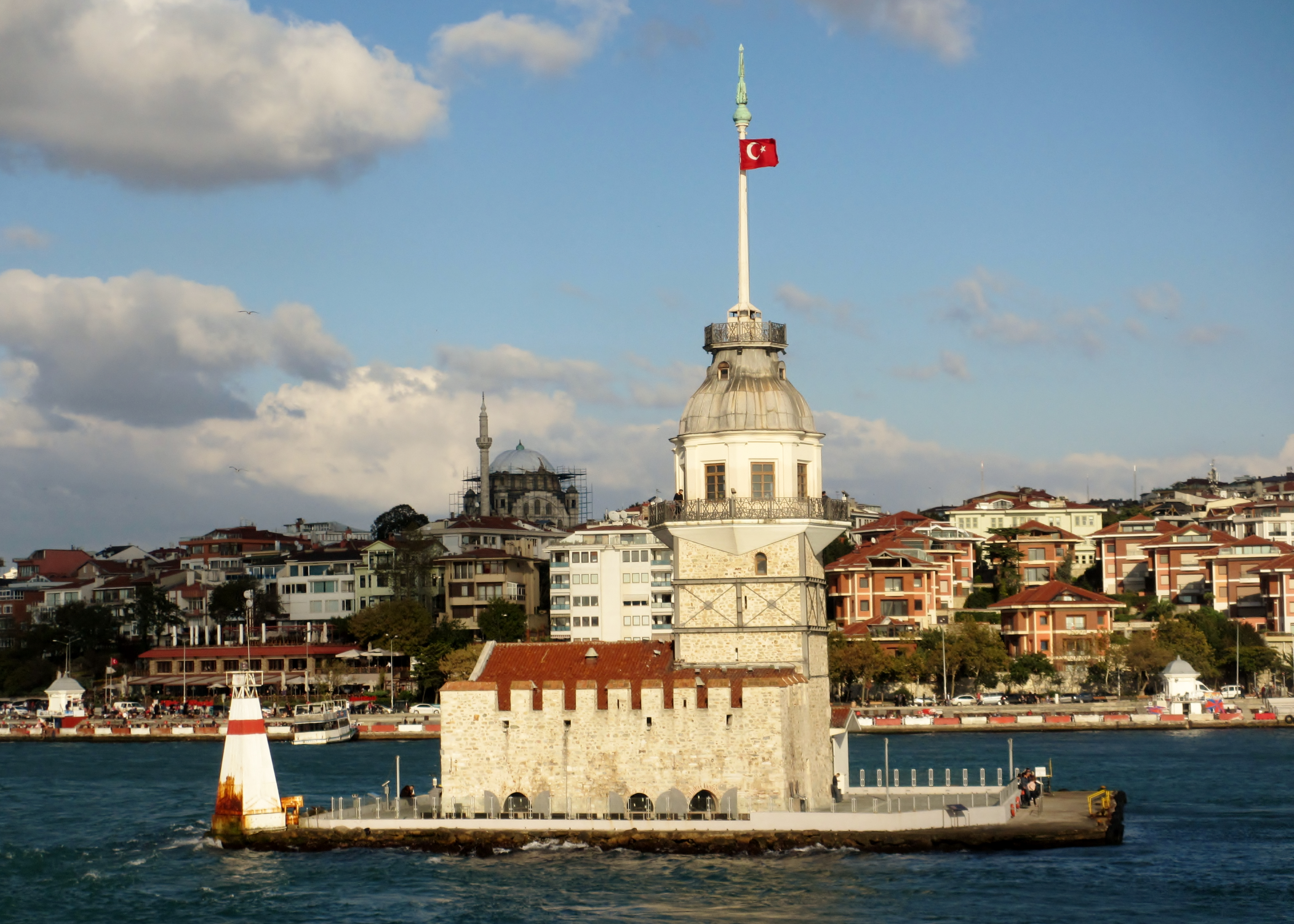 Maiden's Tower, Bosphorus Strait, Istanbul